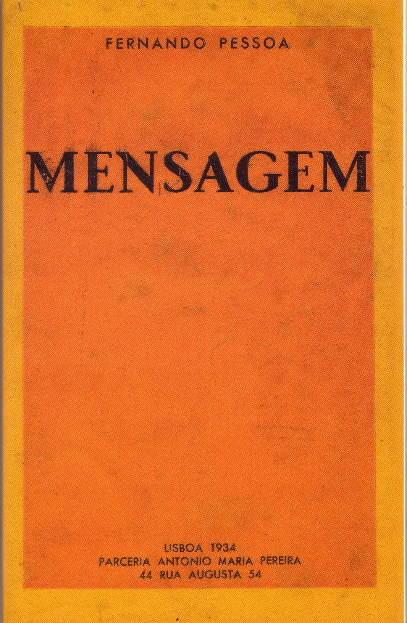 Mensagem, 1st edition, 1934.